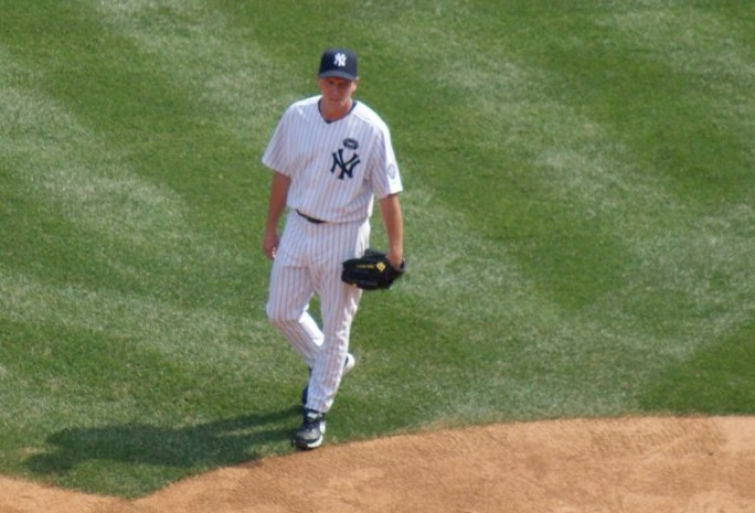 David Cone in Old-Timers' Day